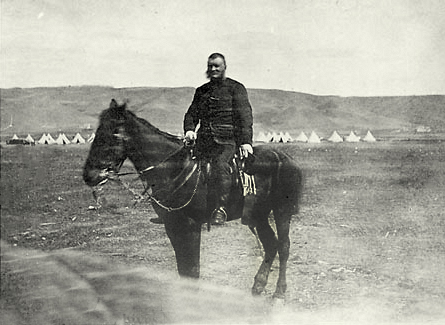 Colonel Arthur Wyndham, taken at Fort Qu'Appelle at the time of the Riel Rebellion.